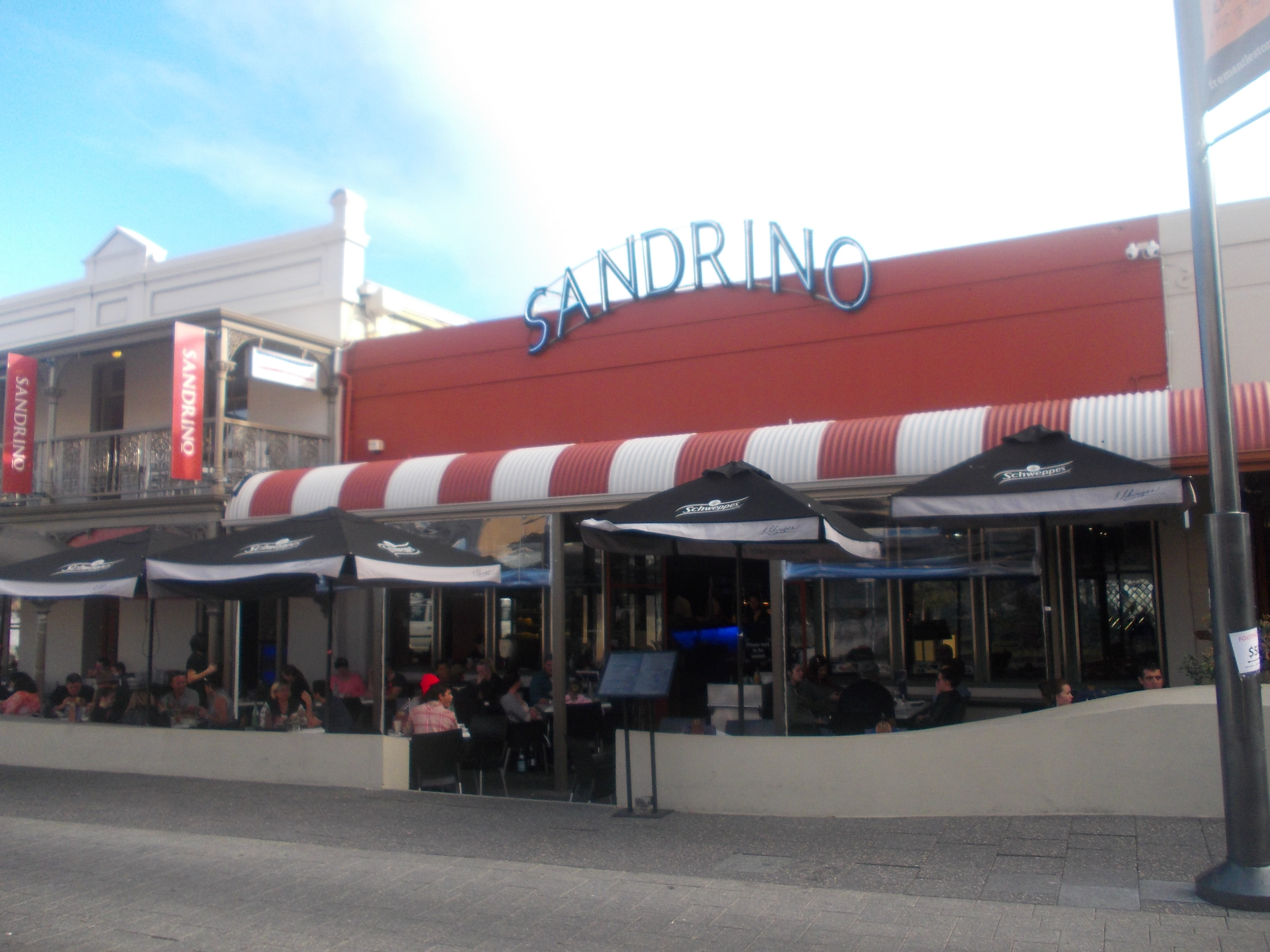 Sandrino Cafe, 95 Market Street, Fremantle, WA, Australia